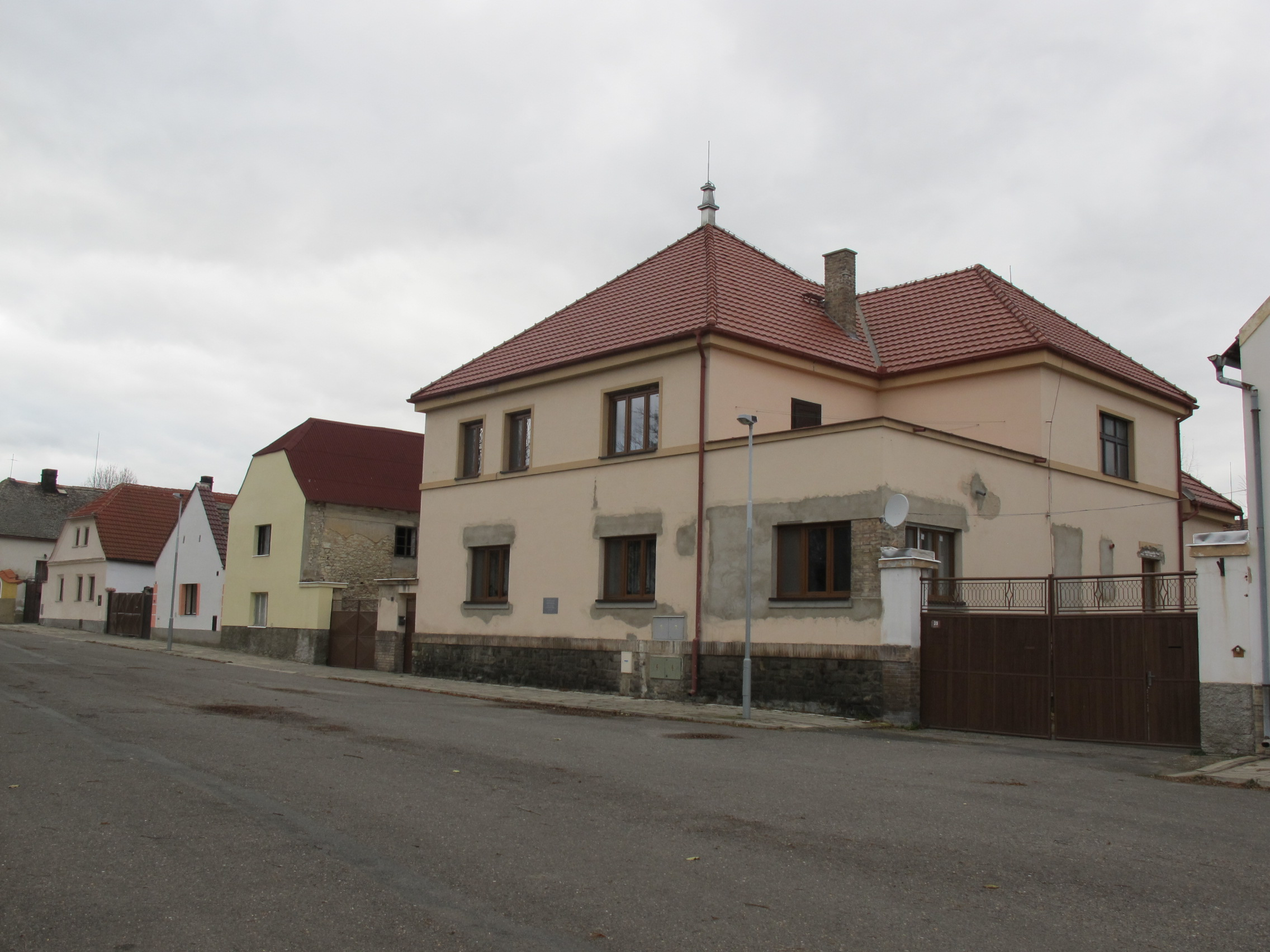 The birth house of Josef Mocker in Cítoliby (Czech Republic)